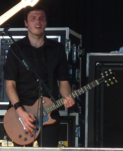 Paramore @ Soundwave Perth 2010